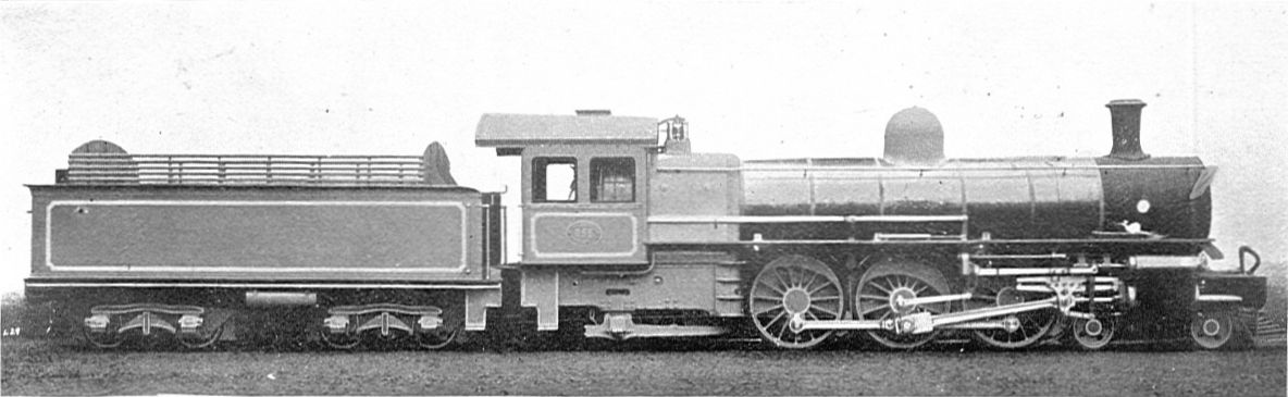 "Pacific" type engine for the Central South African Railway CSAR 651, SAR 733